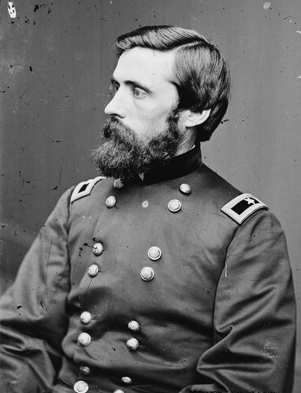 John Aaron Rawlins was an United States Army general during the American Civil War, and later U.S. Secretary of War.